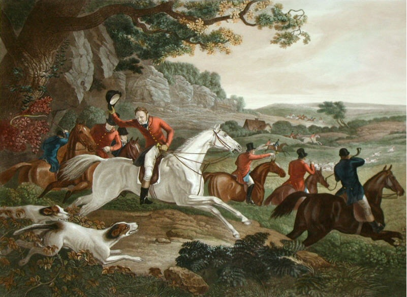 "Col. Thomton, Breaking Cover"